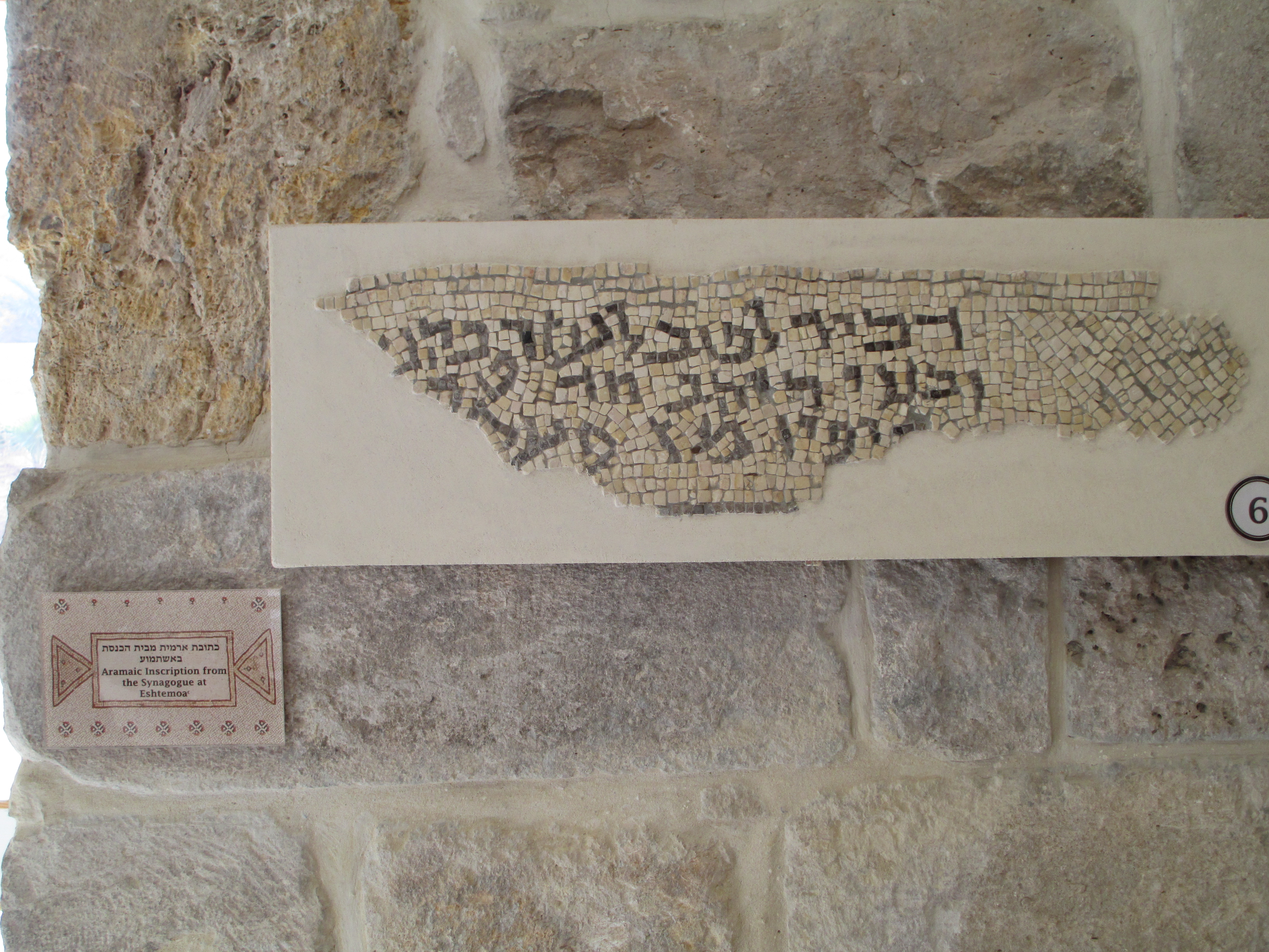 mosaic from old synagogue in eshtemoa פסיפס מבית הכנסת באשתמוע (סמוע), נמצא במוזיאון השומרוני הטוב